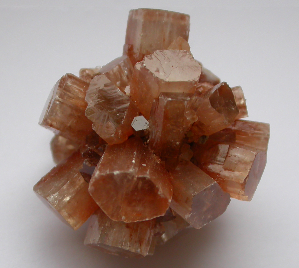 Aragonite redbrown, transparent crystals